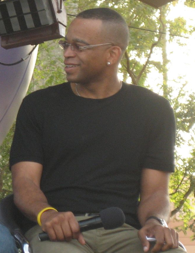 ESPN the Weekends at Disney's Hollywood Studios